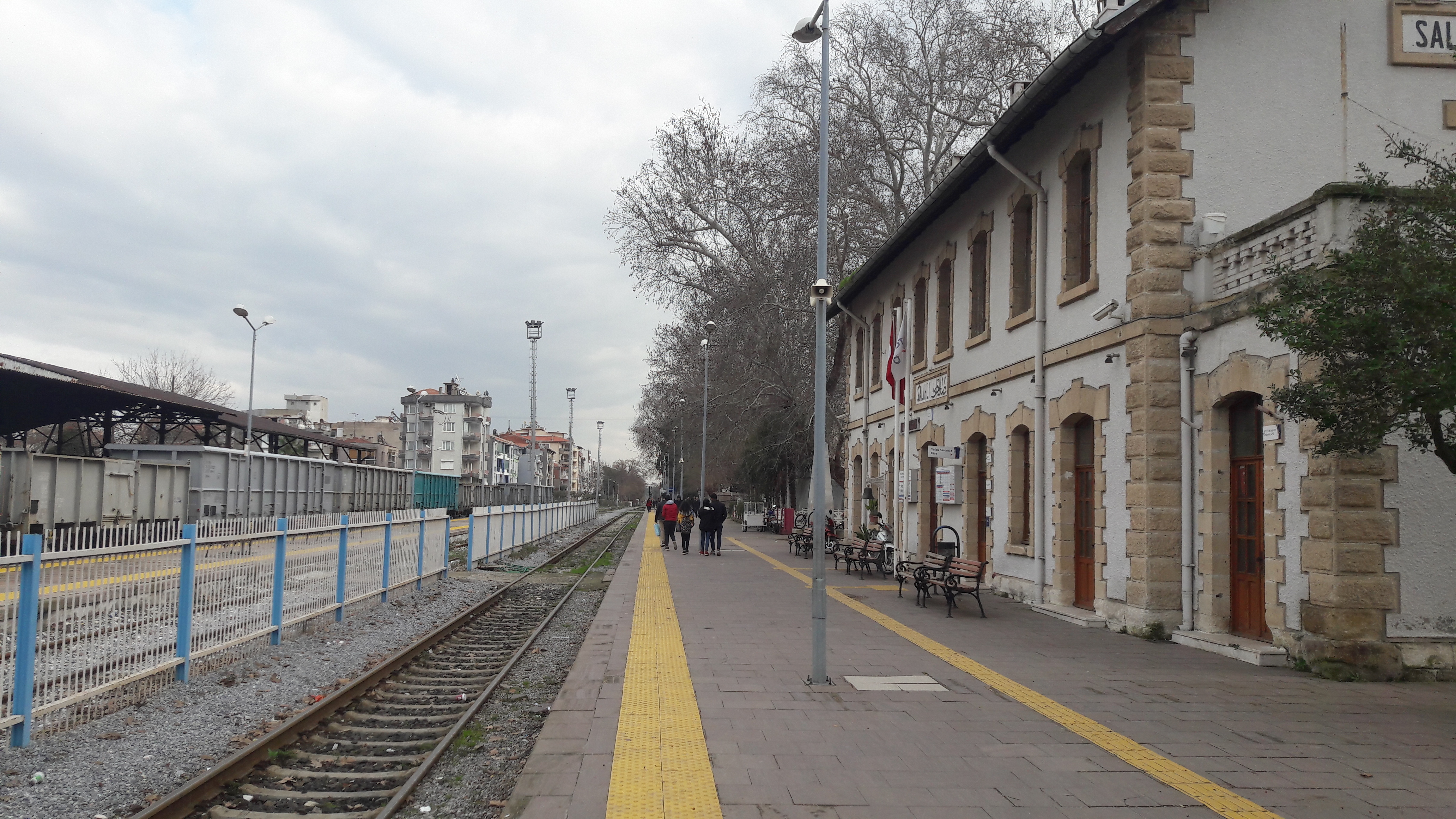 Salihli railway station, looking east (toward Afyon)